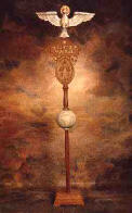 Legionary vexillum - model for procession